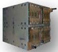 AMDR Radar Modular Assembly